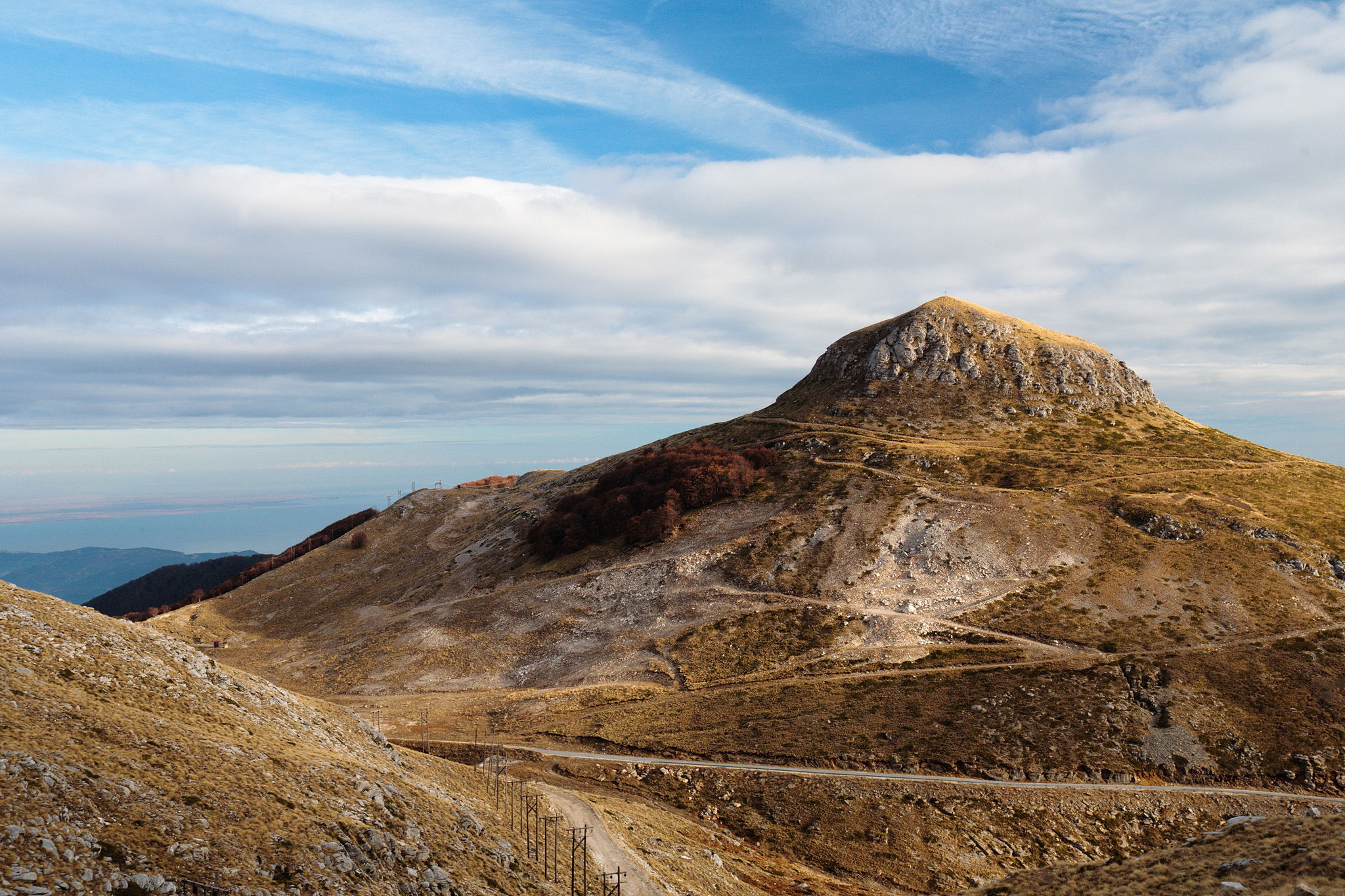 Pilaftepe peak in Pangeo mountains, Greece